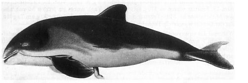 foetal stage of harbour porpoise